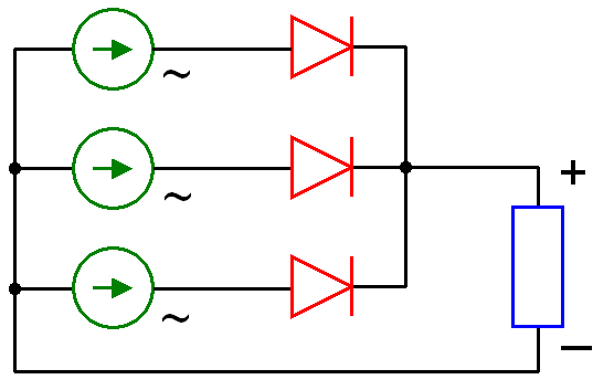 Three-phase half-wave rectifier (with 3 diodes).